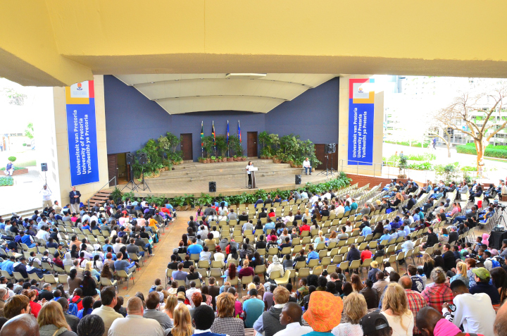 University of Pretoria Amphitheatre